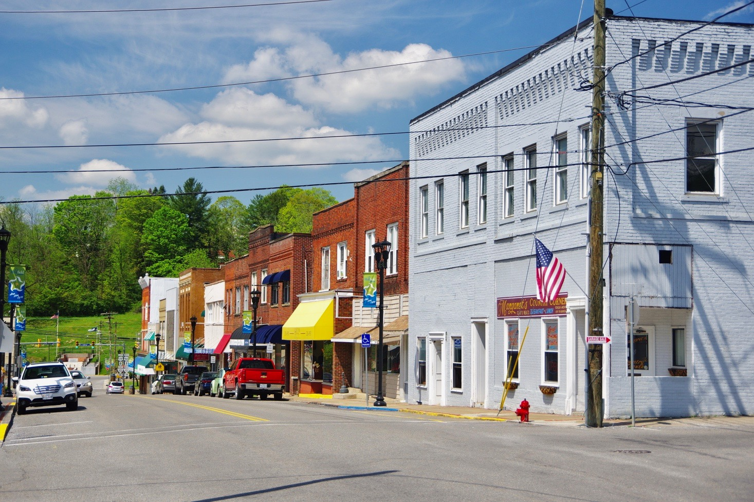 Businesses along Virginia Avenue in Bluefield, Virginia, United States.